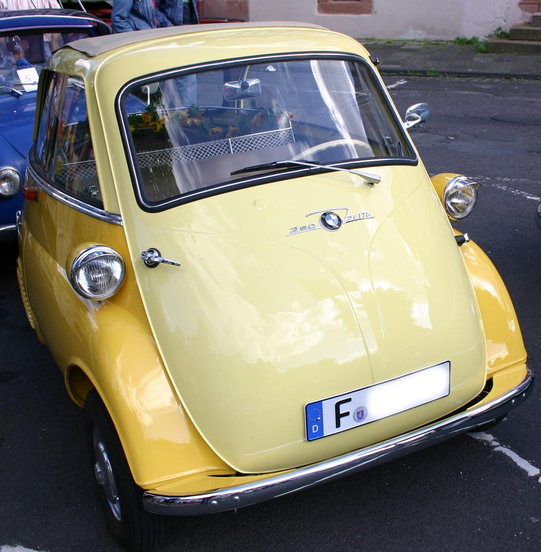 Isetta